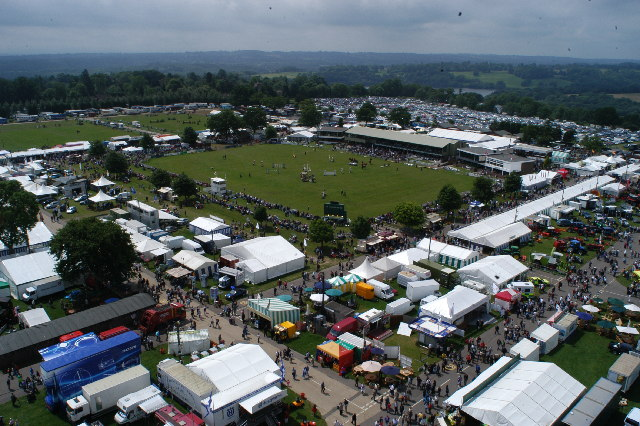 View to the South West over the 2003 South of England Show. Photo taken by Peter Goulding. Used with permission.